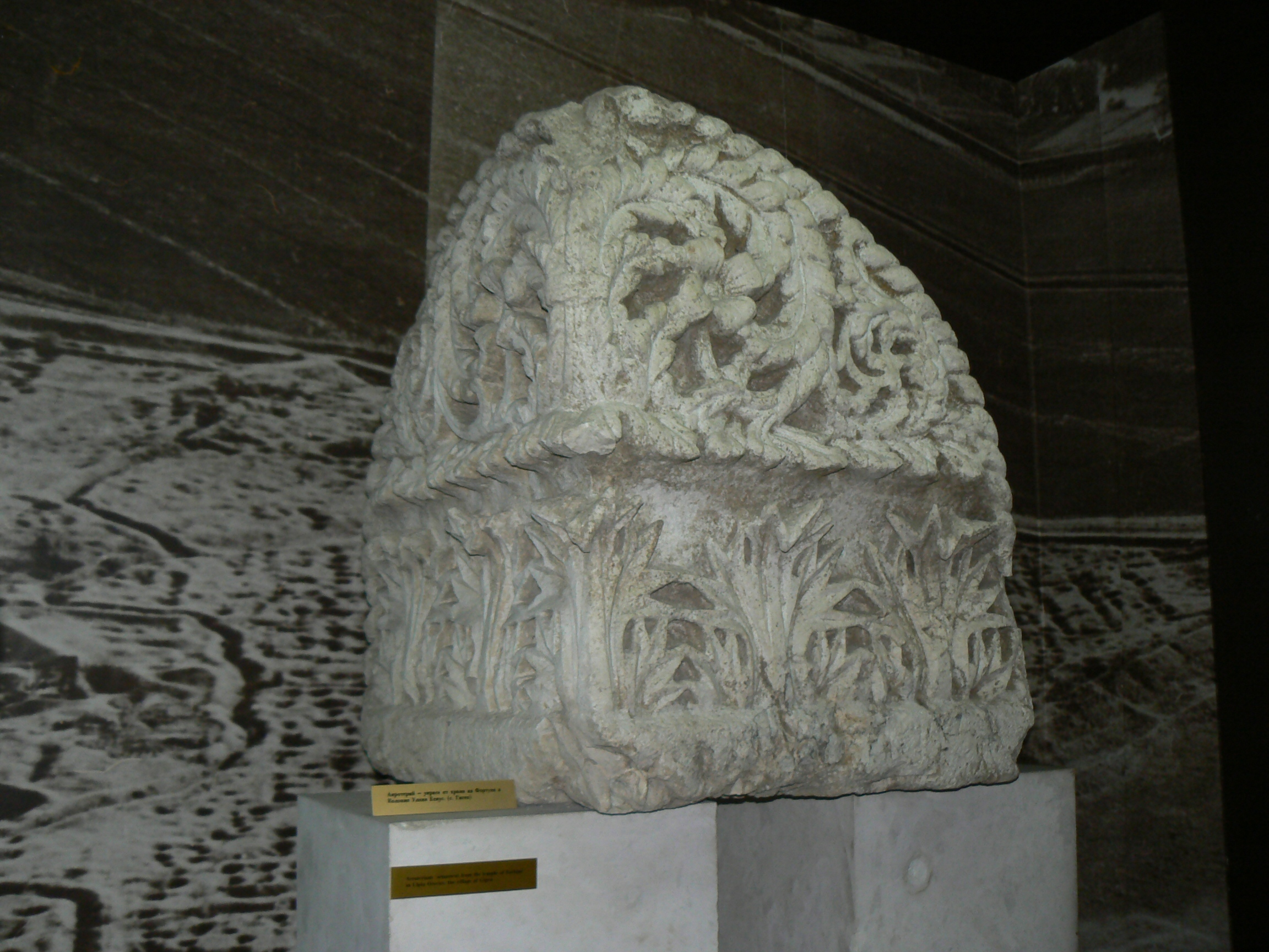 Acroterion from Ulpia Oescus in Pleven history museum, Bulgaria